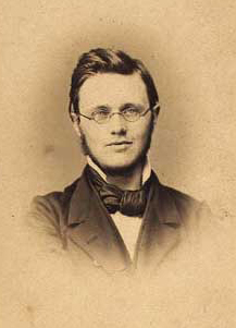 O. Nielsen